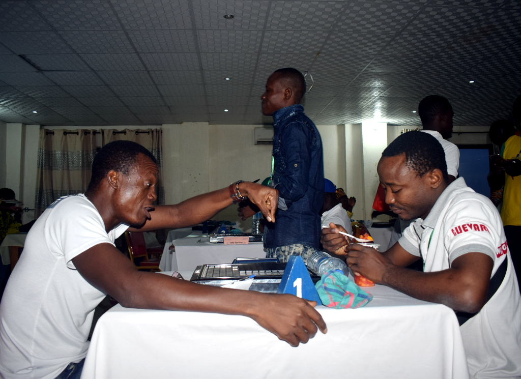 Adjovi François-Xavier and fellow scrabble player talking during a break in the national championship in Bénin This is an image with the theme "Play" from: Benin